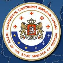 Office of Minister for Euro-Atlantic Integration of Georgia logo